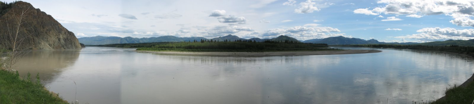 The Yukon River at Eagle, Alaska